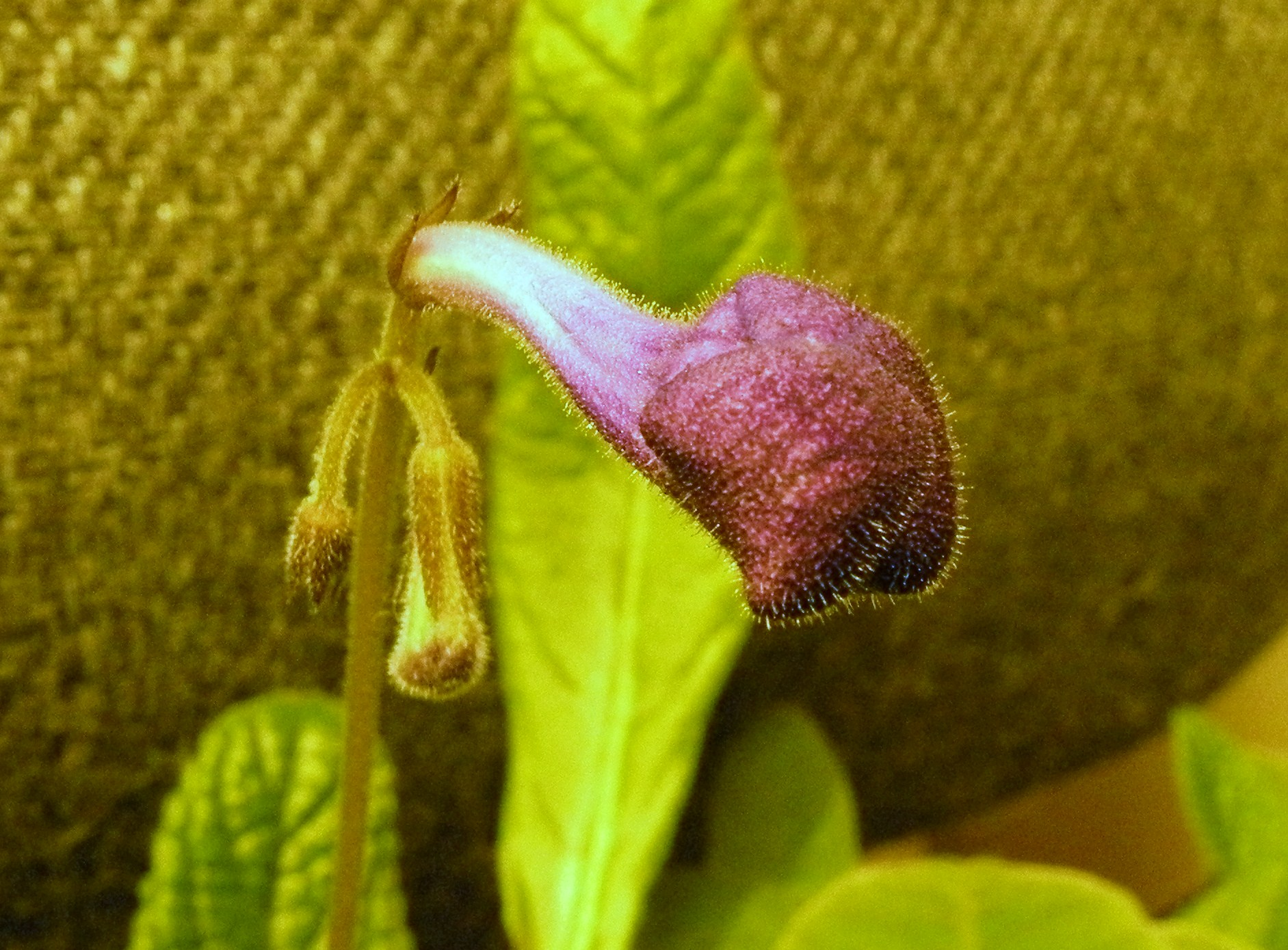 An unopened Streptocarpus hybrid bloom created by Jamie Anderson, showing star-shaped form and trichomes.